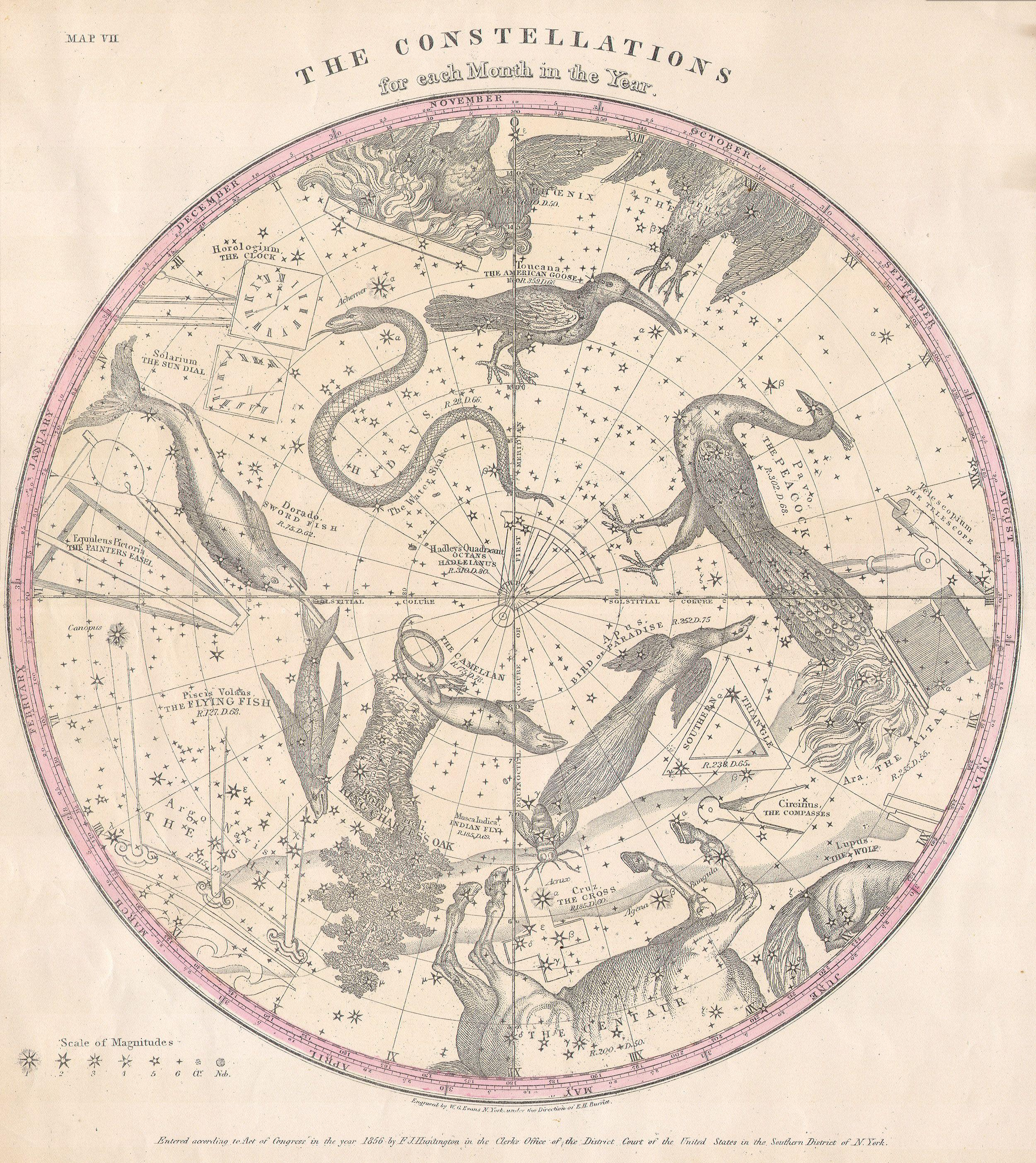 This rare hand colored map of the stars of the southern hemisphere was engraved W. G. Evans of New York for Burritt’s 1856 edition of the Atlas to Illustrate the Geography of the Heavens. It represents the night sky and constellations of the Southern Hemisphere. Constellations are drawn in detail and include depictions of the Zodiacal figures the stars are said to represent. Included on this chart are Hydra (the Snake), Dorado (the Sword Fish), Pavo (the Peacock) and the Centaur. Chart is quartered by lines indicating the Solstitial and Equinoctial Colures. This map, like all of Burritt’s charts, is based on the celestial cartographic work of Pardies and Doppelmayr. Dated and copyrighted: “Entered according to Act of Congress in the year 1856 by F. J. Huntington in the Clerks Office of the District Court of the United States in the Southern District of N. York.